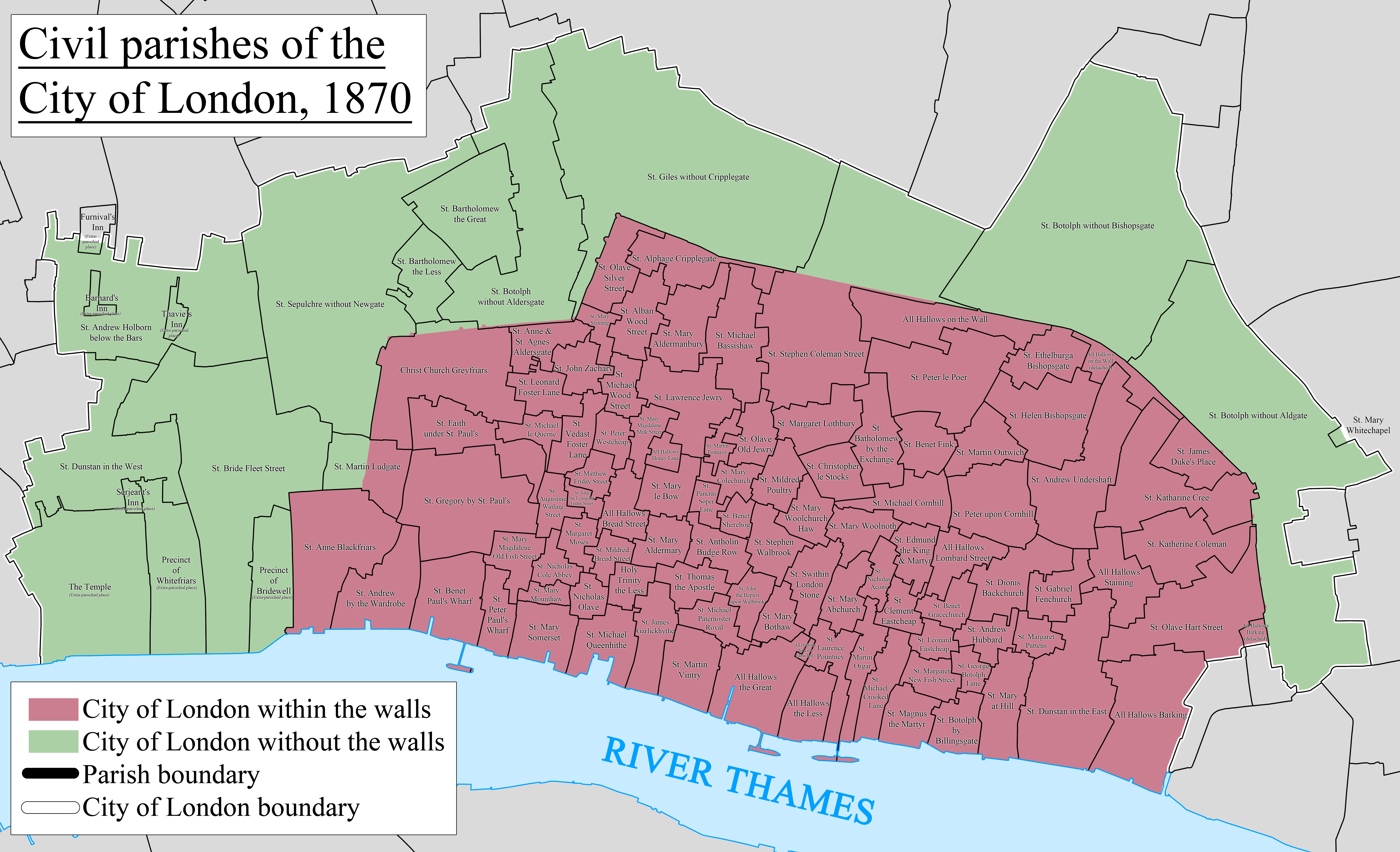 A map showing the civil parishes of the City of London as they appeared in 1870. Based on the Ordnance Survey Town Plan of London (1871-76) at 1:1056 scale.